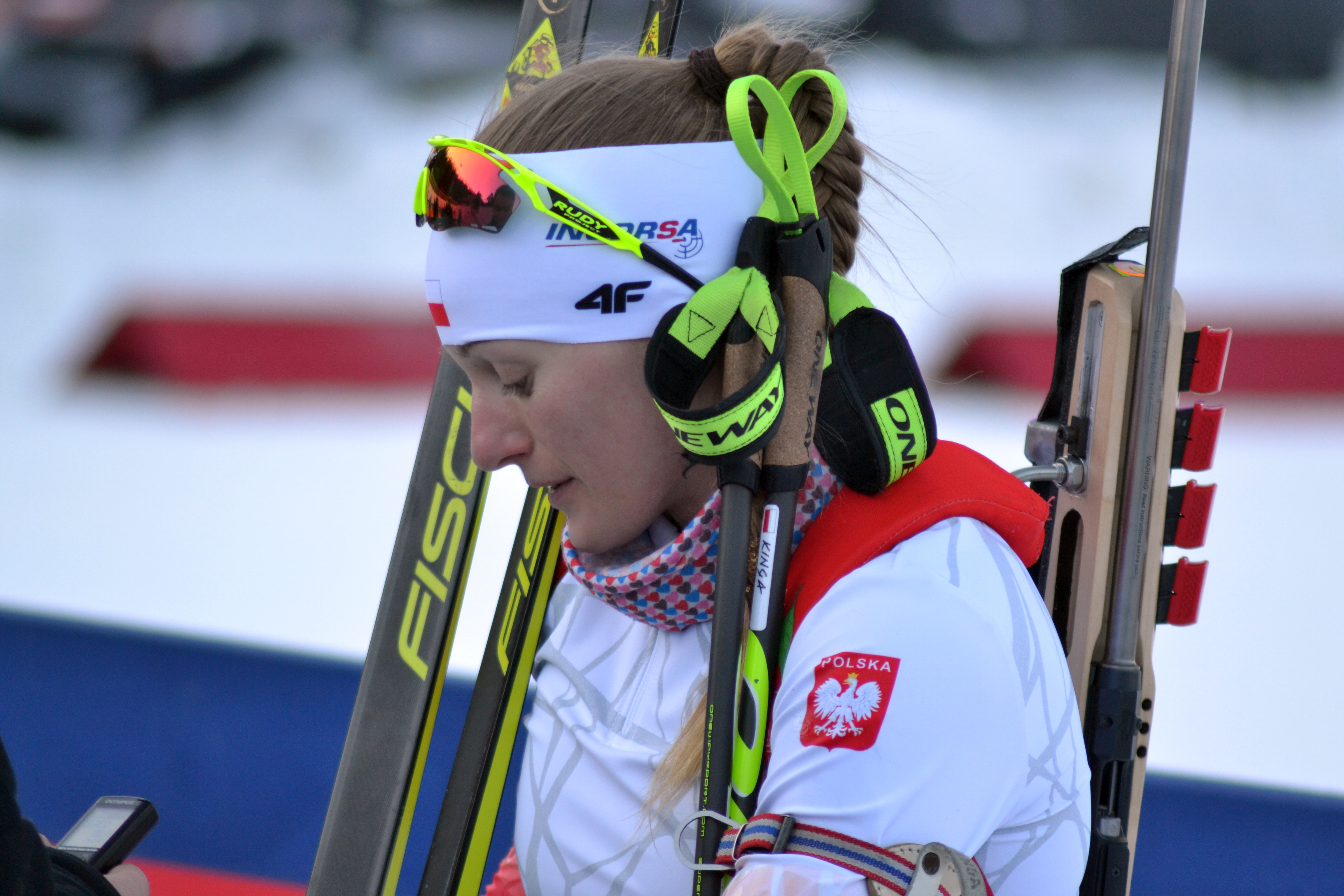 Open European Championships Biathlon 2017, Sprint Women's race, held on January 27th.